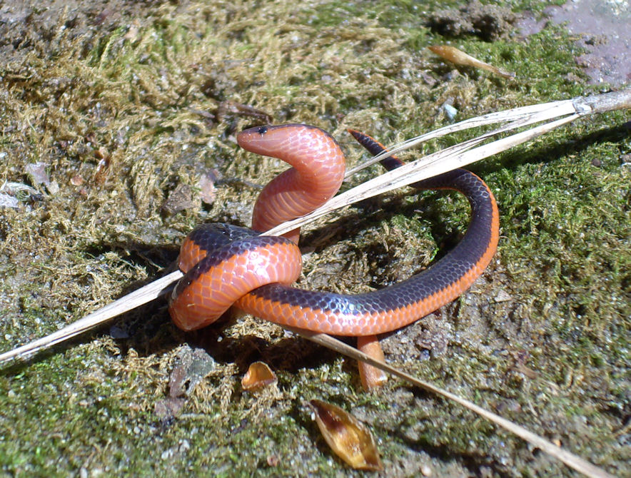 Western worm snake found while raking leaves in back yard in Arkadelphia, Arkansas, USA. As it was 14 C outside (and less in the shade), it was groggy and extremely shy. It is wrapped around a pine needle (Pinus taeda). It was in a wooded, fairly shaded area. Another photo is available on my CalPhotos (